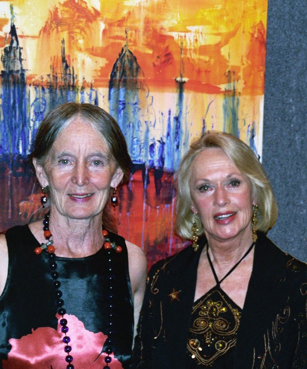 Elizabeth Nelson Adams and Tippi Hedren in 2009 at Elizabeth's art show in Los Angeles, CA.